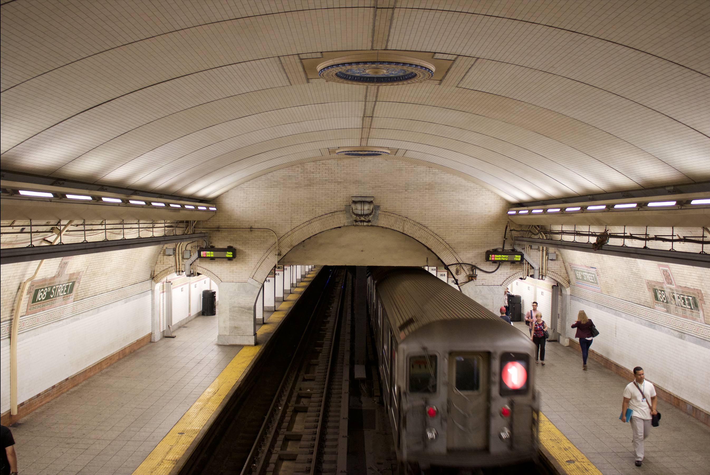 168th st (1) station with train approaching